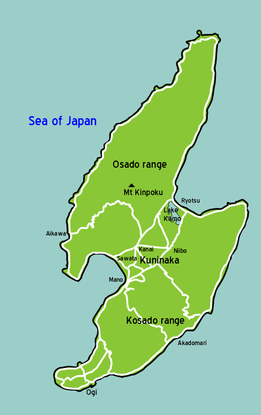 Approximative non to scale map of Sado